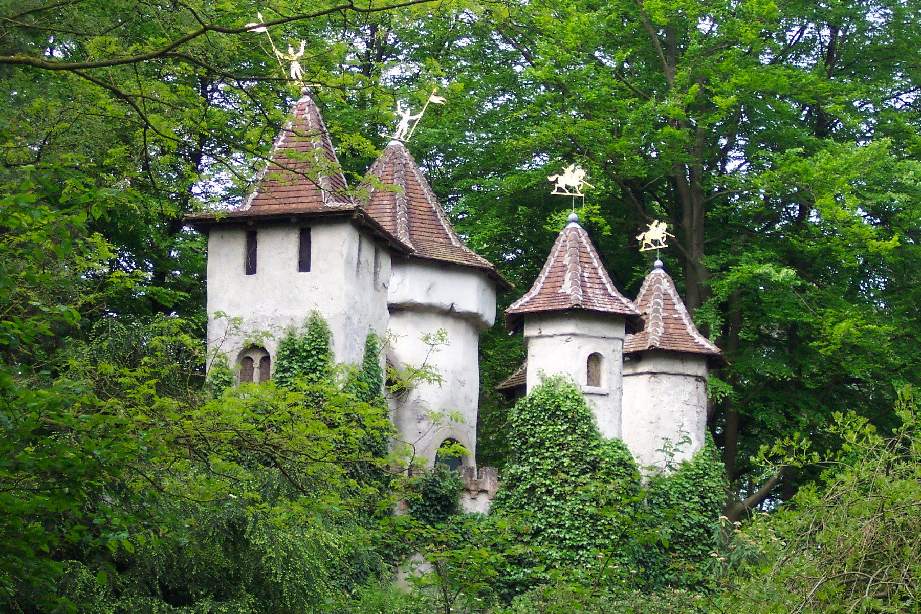 Picture of the castle of Sleeping Beauty in The Efteling, the Netherlands